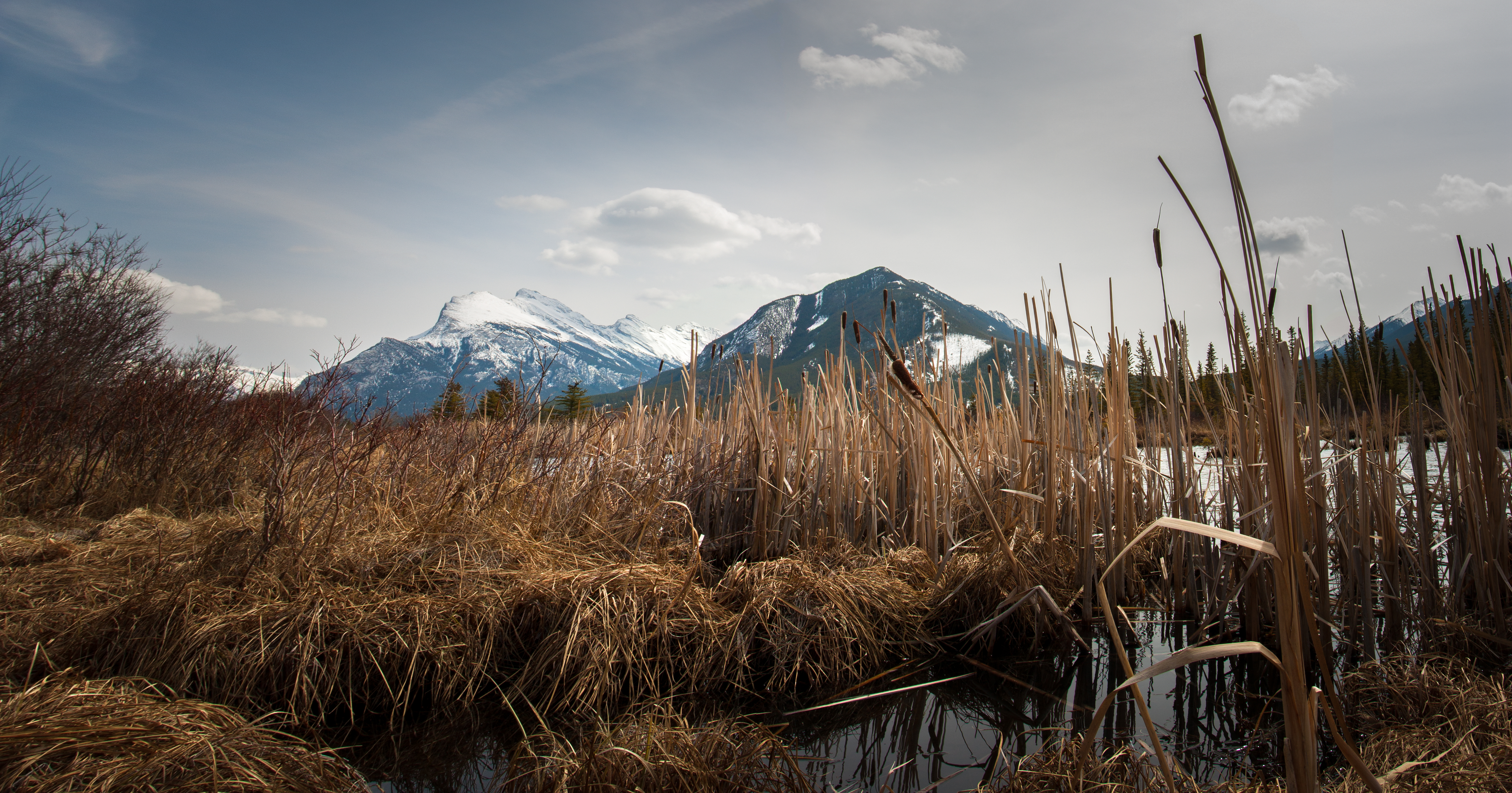 Mount Rundle and Sulphur Mountain as seen from the reeds along the shore of one of the Vermillion Lakes in Banff National Park, Alberta, Canada. This photo was taken in a protected area in Canada, Wikidata item Banff National Park (Q41858)